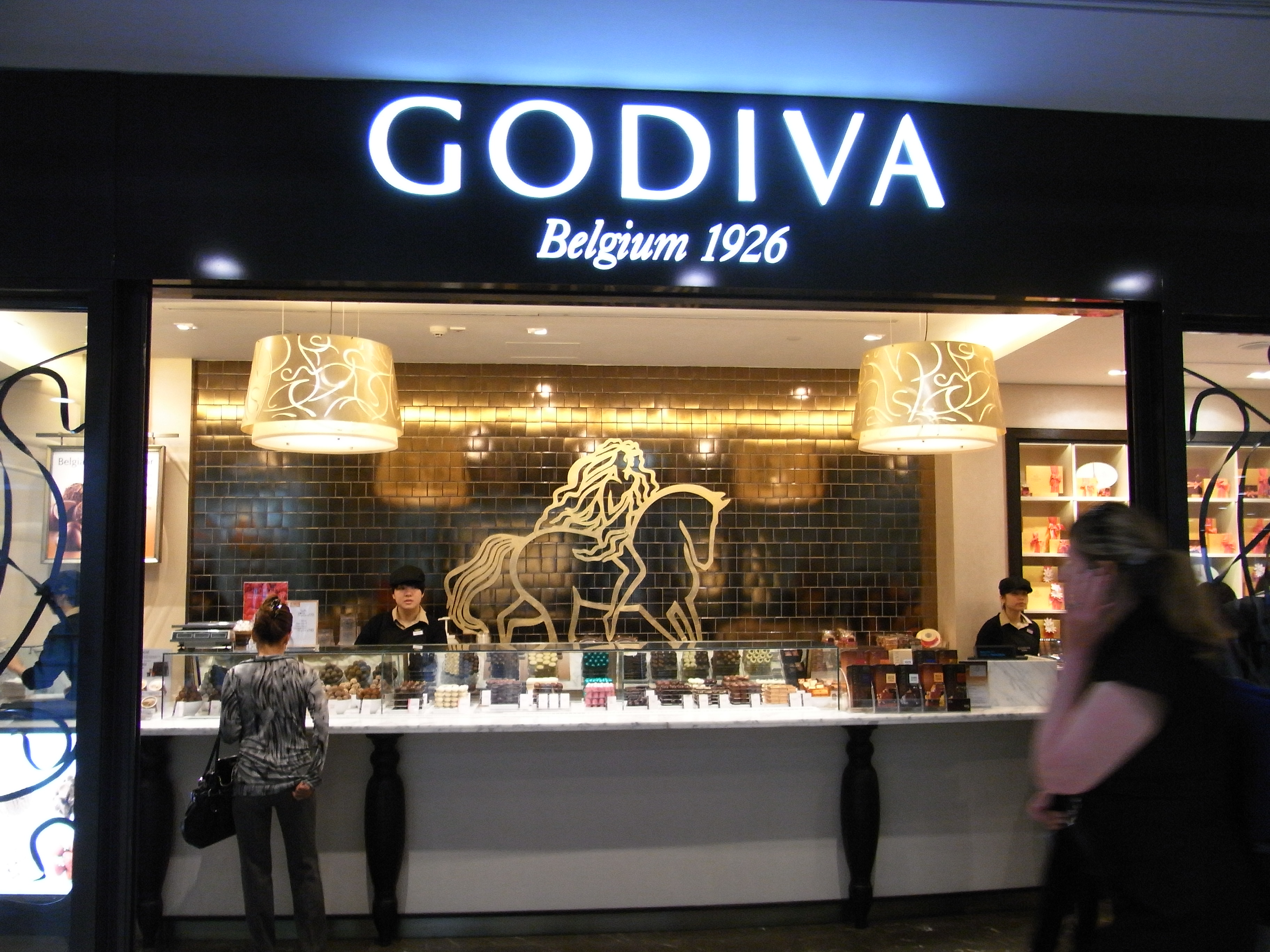 Shop in IFC Mall, Central, Hong Kong